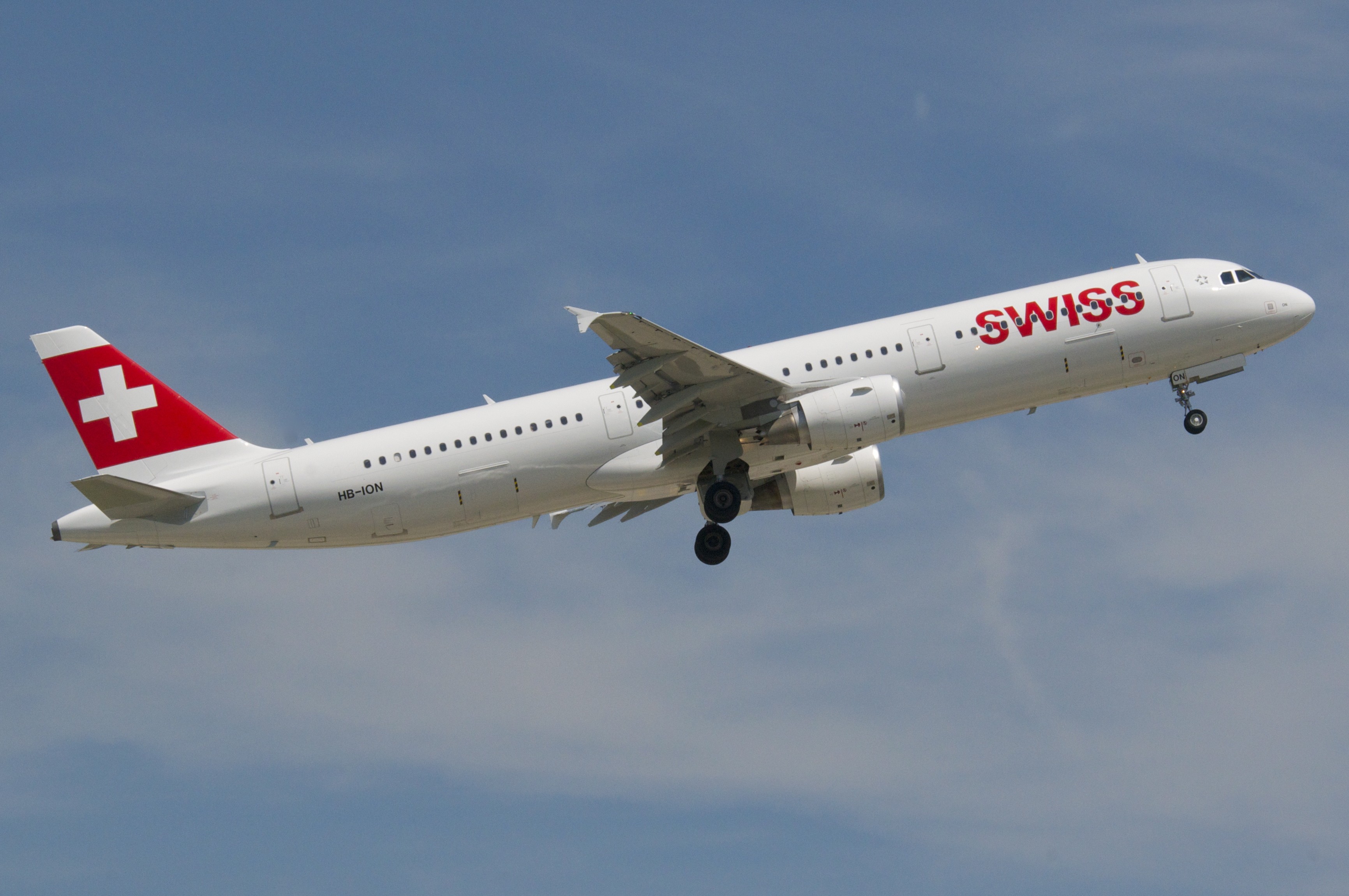 Swiss Airbus A321-212; HB-ION@ZRH;08.06.2013/709db